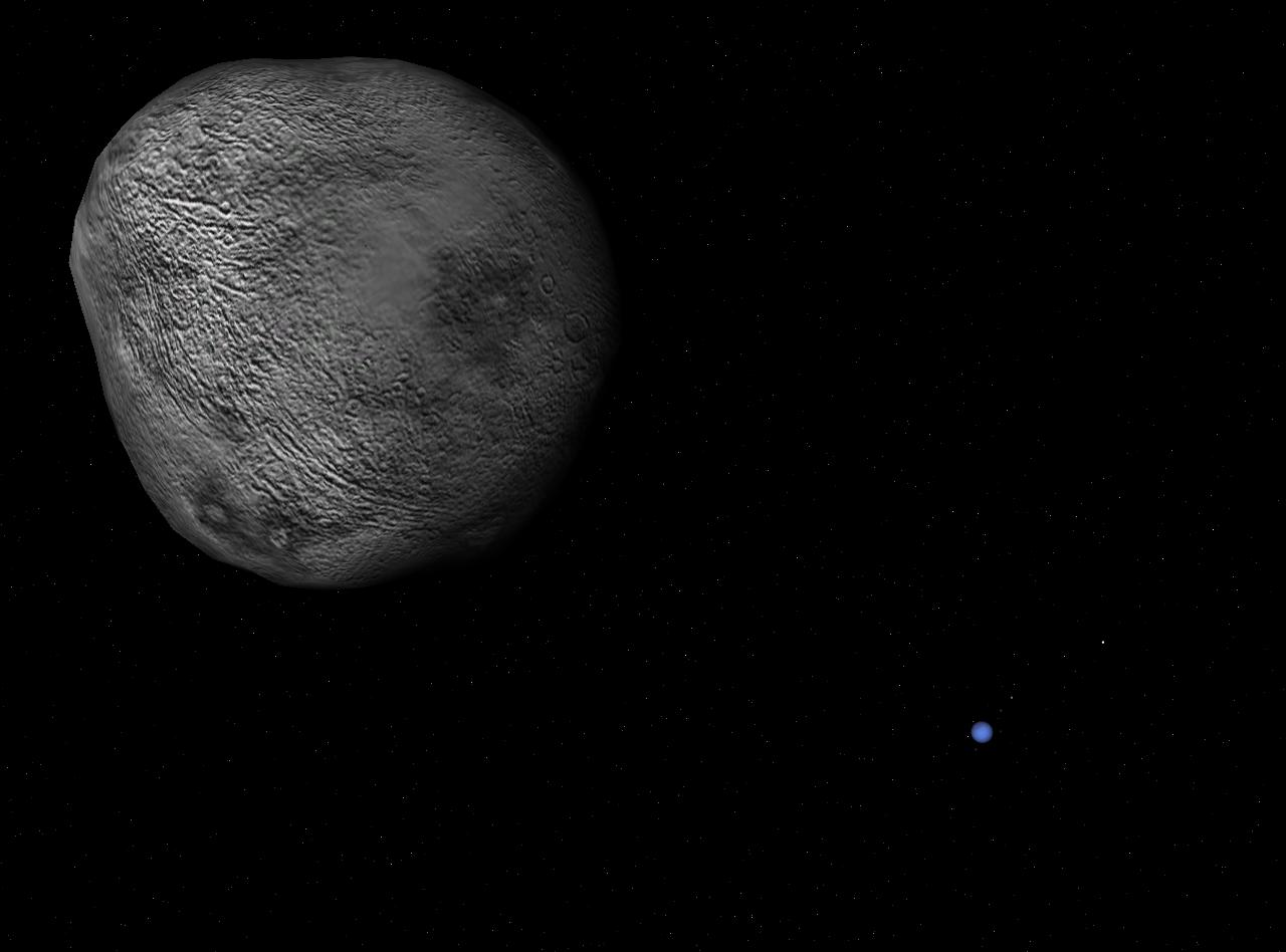 Simulation of Nereid orbiting Neptune. Simulation created using Celestia. Nereid is depicted about halfway between the closest and furthest distances from Neptune in its highly elliptical orbit. The brightest 'star' (to the top right of Neptune) is Triton. The field of view is 30 degrees. The surface of Nereid is fictional.